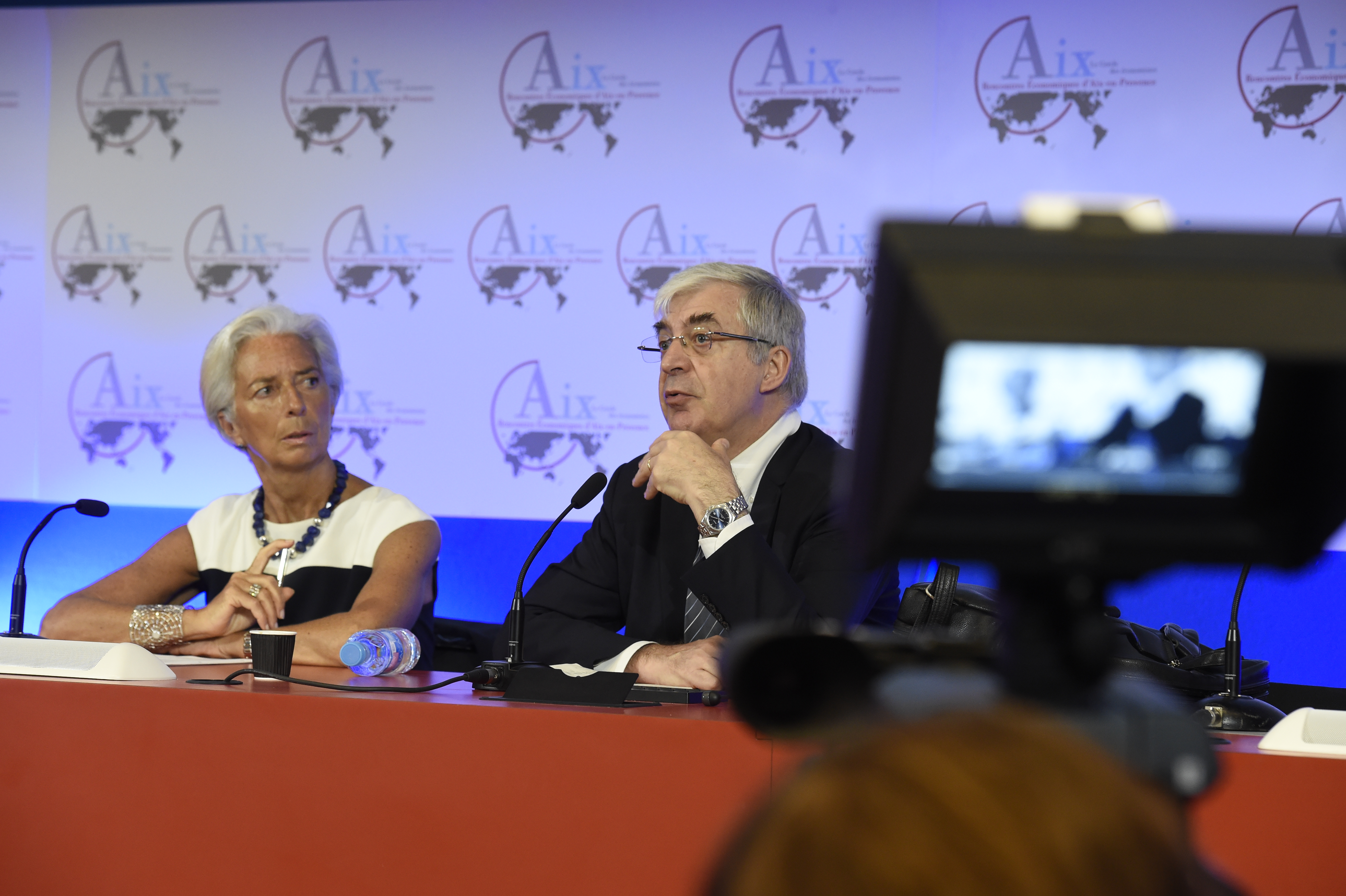 Christine Lagarde, Managing Director of the International Monetary Fund giving a special allocution at Les Rencontres économiques d'Aix-en-provence 2013